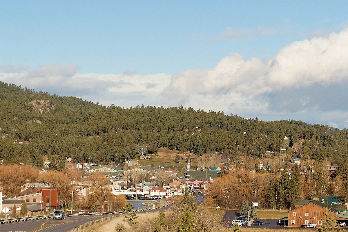 Lakeside, Montana